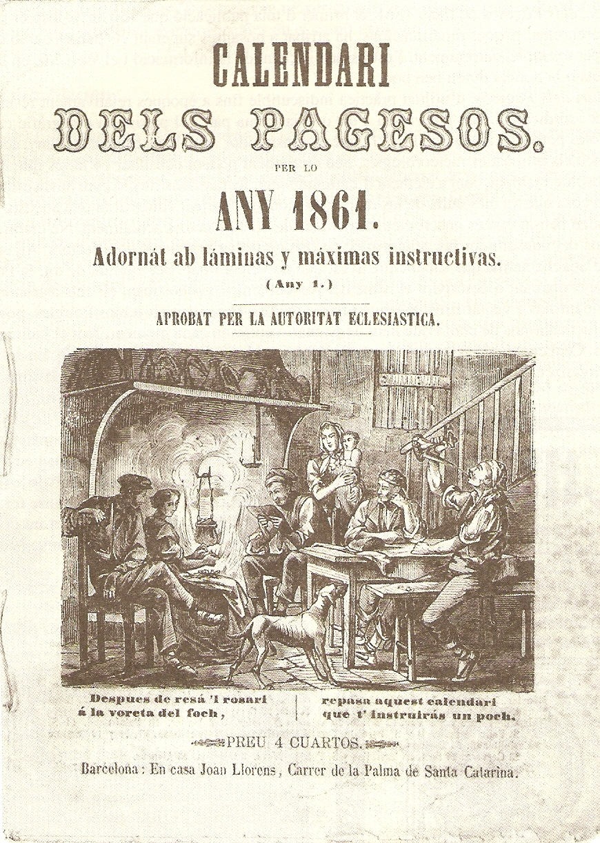 First edition of the Catalan Almanac "Calendari dels Pagesos"